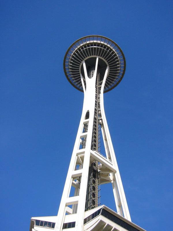 Space Needle